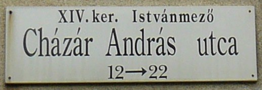 Chazar Street in Budapest.